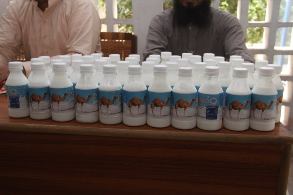 A brand of Pasteurized camel milk at University of Agriculture, Faisalabad at World camel day, 2014